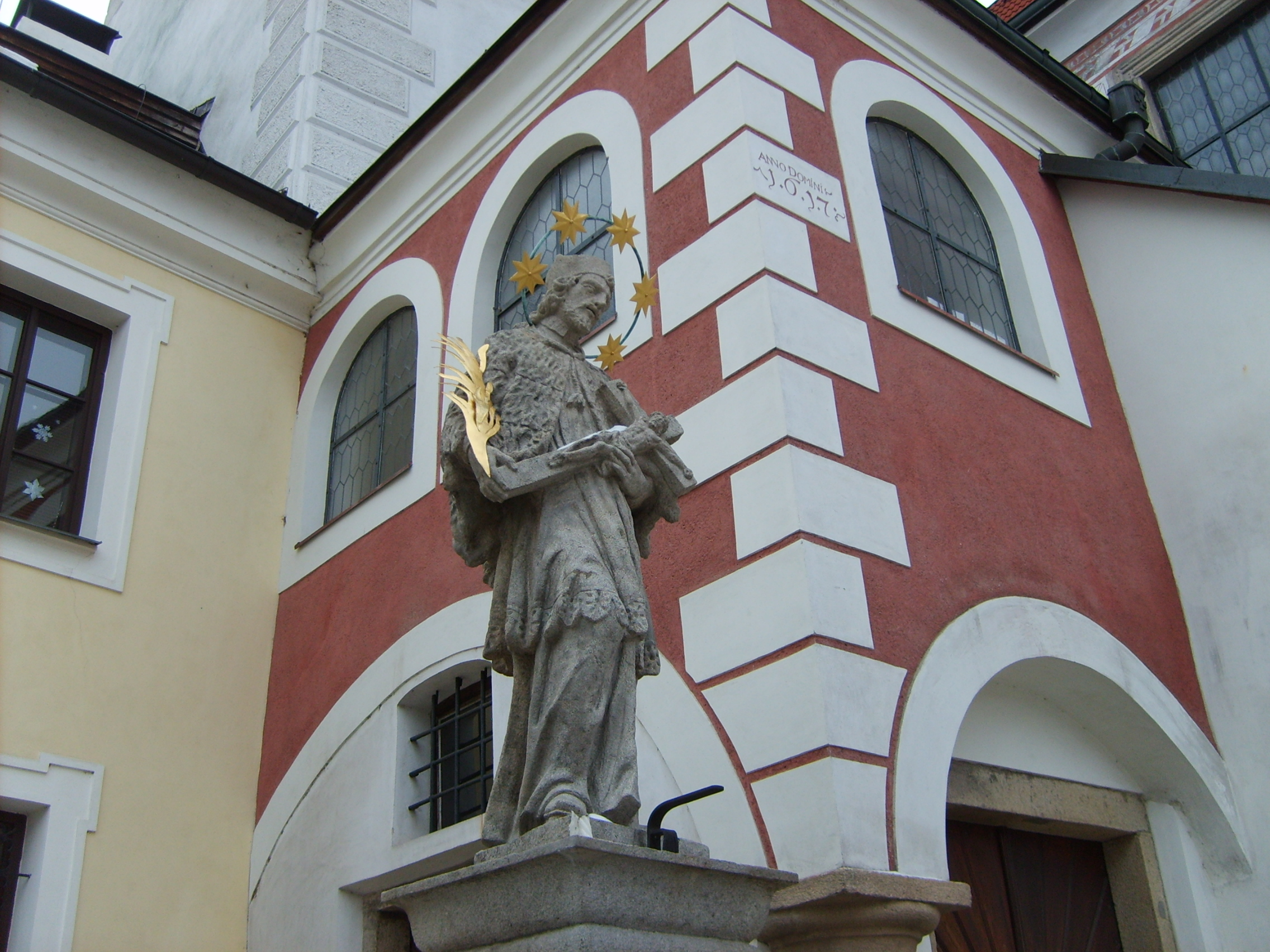 St. John of Nepomuk statue in Pelhřimov